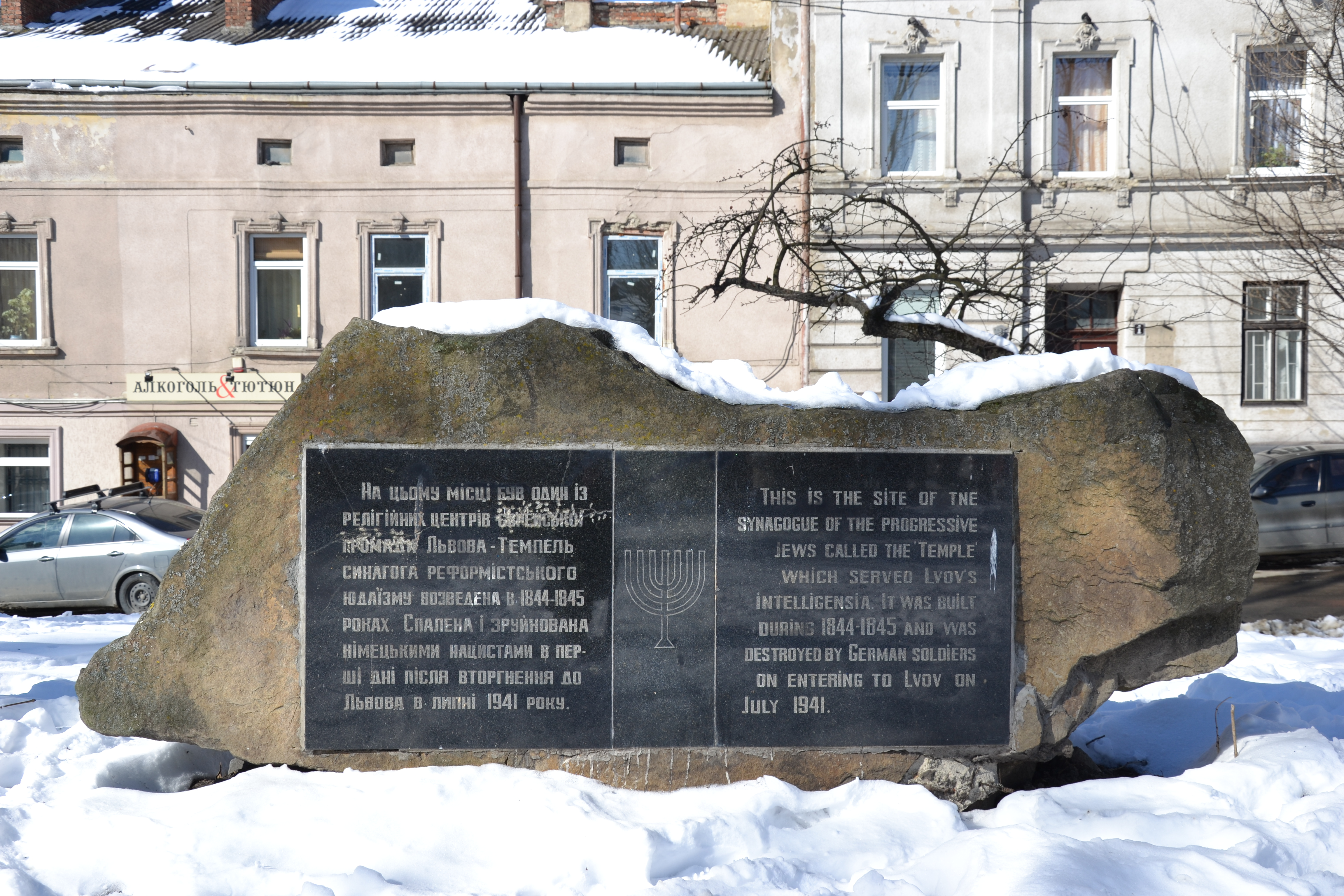 Memorial stone with memorial tablet at the former site of the Tempel Synagogue in Lviv